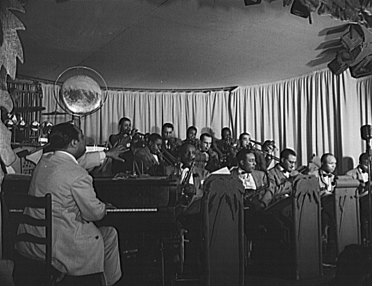 Duke Ellington directing his band from the piano at the Hurricane cabaret